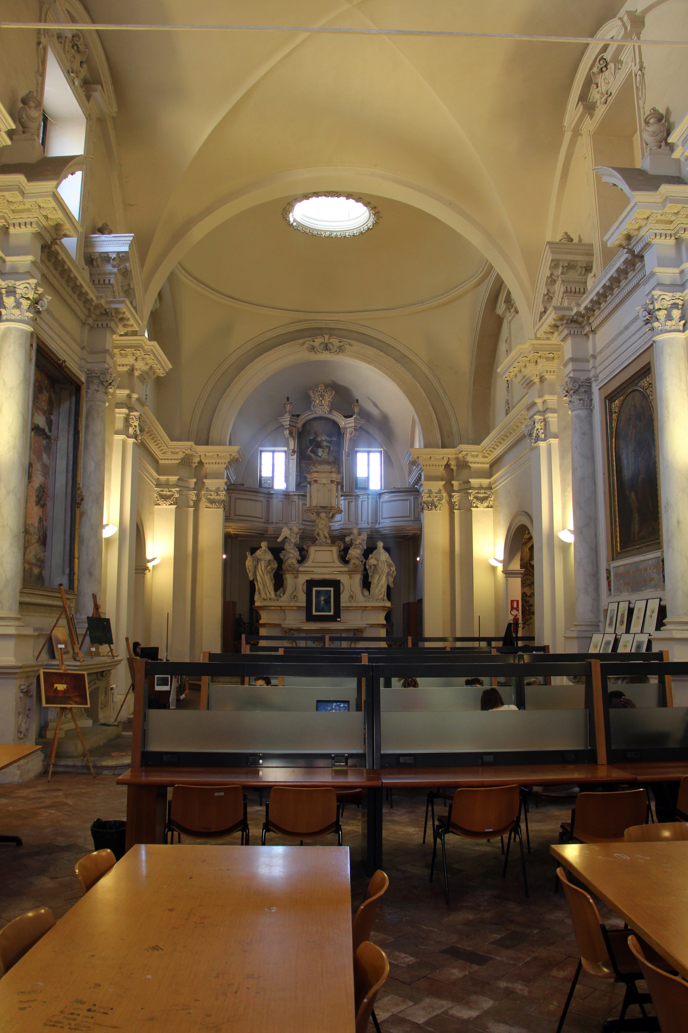 Accademia dei Fisiocritici Museums